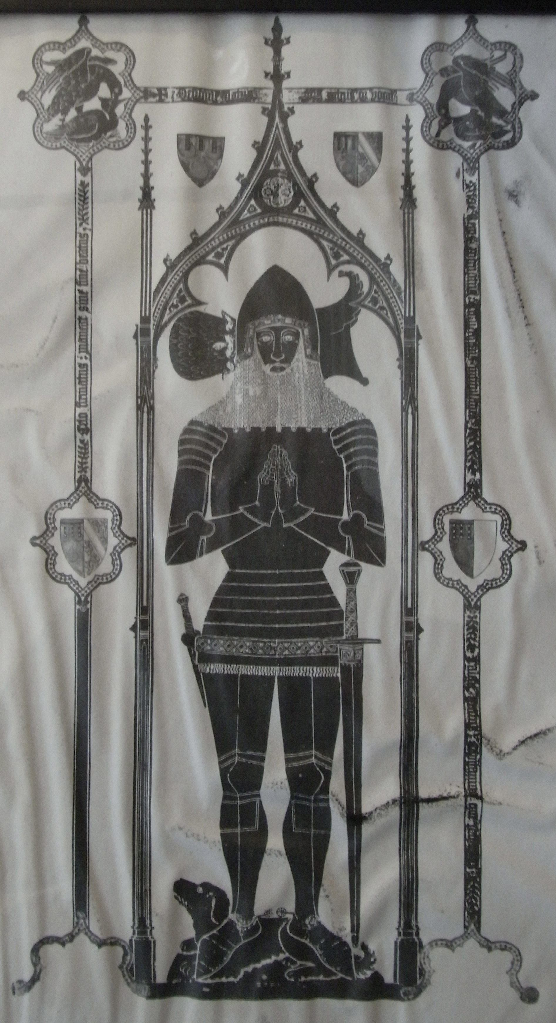 Brass rubbing from monumental brass of Sir Peter Courtenay (1346-1405), KG, 5th son of Hugh Courtenay, 2nd Earl of Devon (d.1377), south aisle, Exeter Cathedral, Devon. Comparatives Similar in appearance to the following brasses: Sir Maurice Russell (d.1416), Saint Peter's Church, Dyrham, Gloucester; Thomas Berkeley, 5th Baron Berkeley (d.1417), Church of St Mary the Virgin, Wotton-under-Edge, Gloucestershire Brass re-used by William Dalison (died 1546) in All Saints' church, Laughton, Lincolnshire